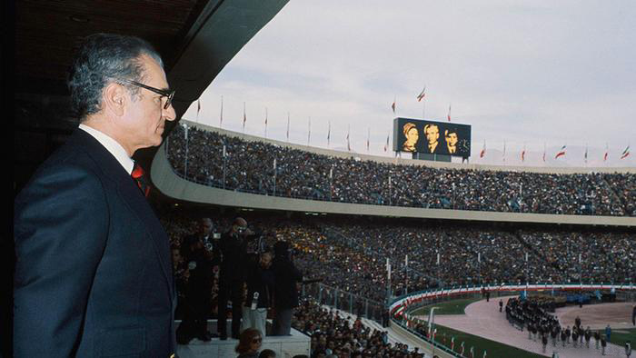 Mohammadreza Shah Pahlavi during the 1974 Asian Game inauguration